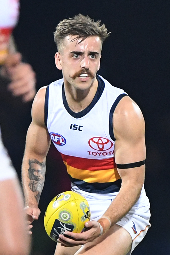 Jordan Gallucci of Adelaide during the 2019 AFL round 11 match between Melbourne and Adelaide at TIO Stadium on Saturday, 1 June 2019 in Darwin, Northern Territory.